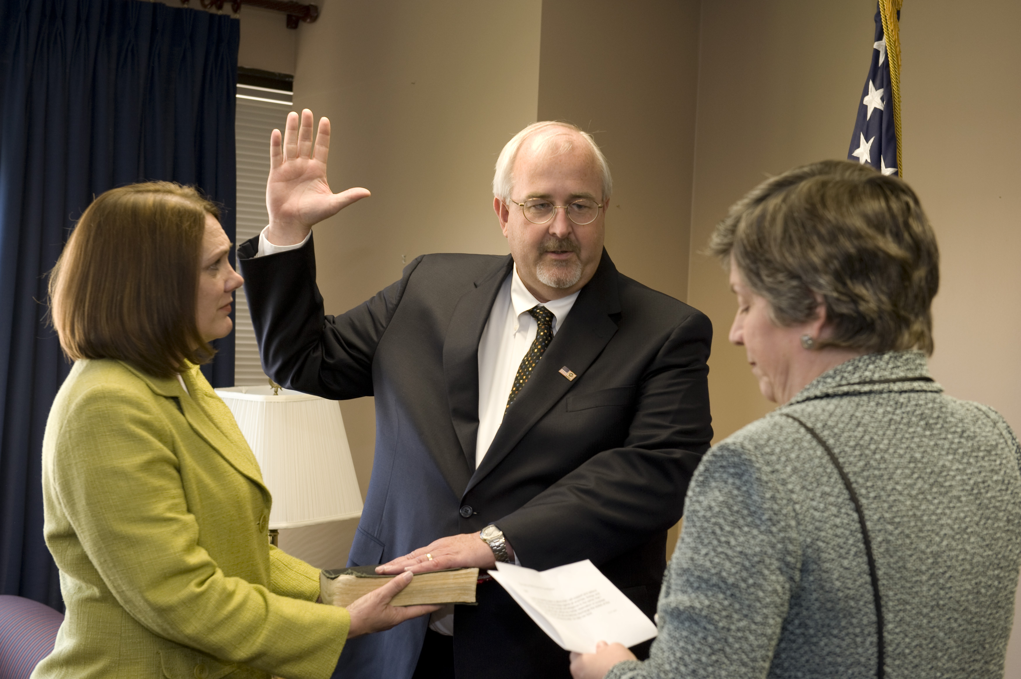 Washington, DC, May 19, 2009 -- FEMA Administrator W. Craig Fugate being sworn in at FEMA Headquarters by DHS Secretary Janet Napolitano. Mrs. Fugate is holding the bible. FEMA/Bill Koplitz